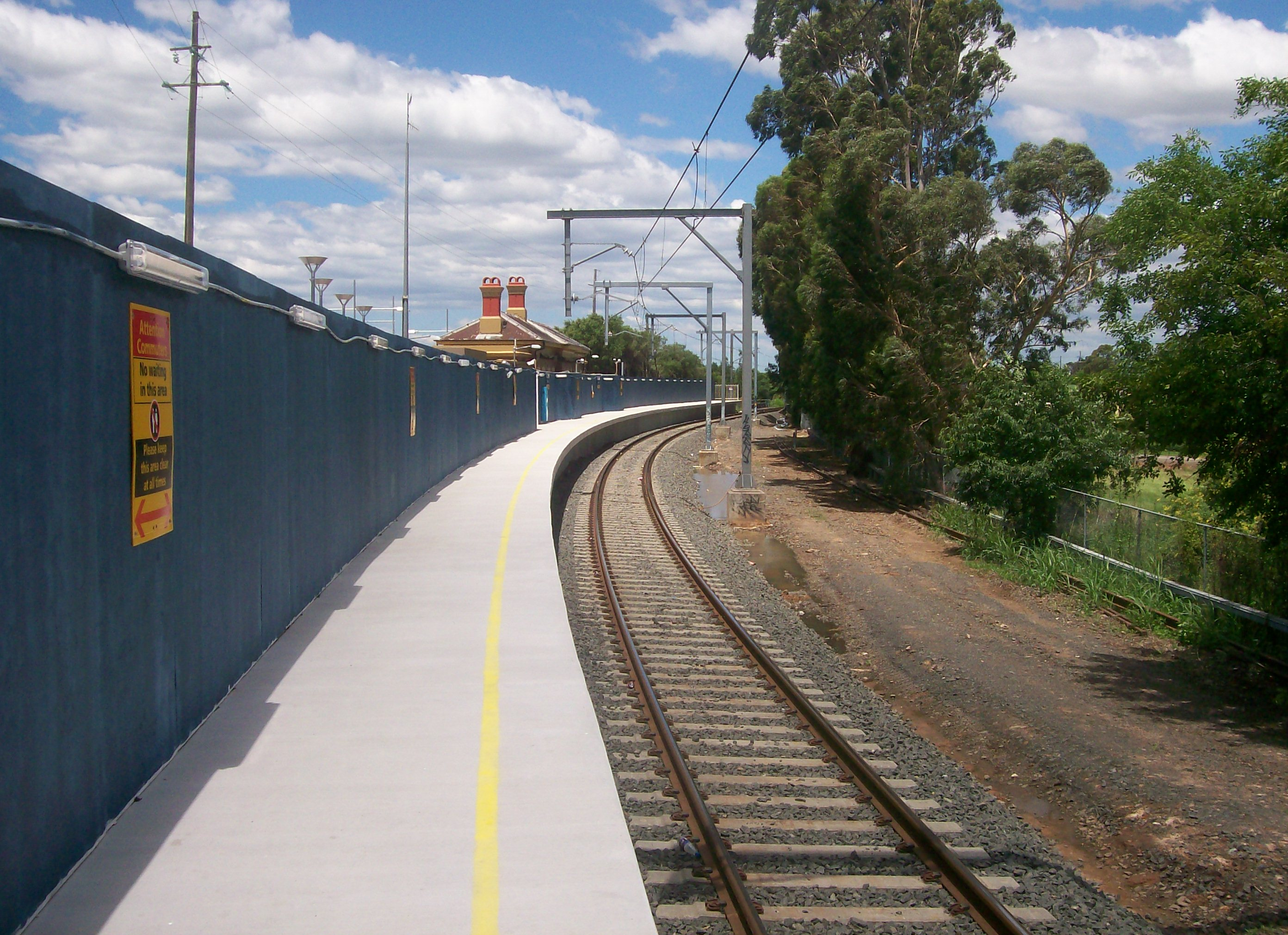 Windsor railway station looking south